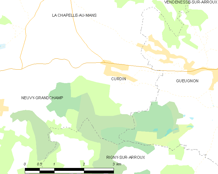 Map of French municipality